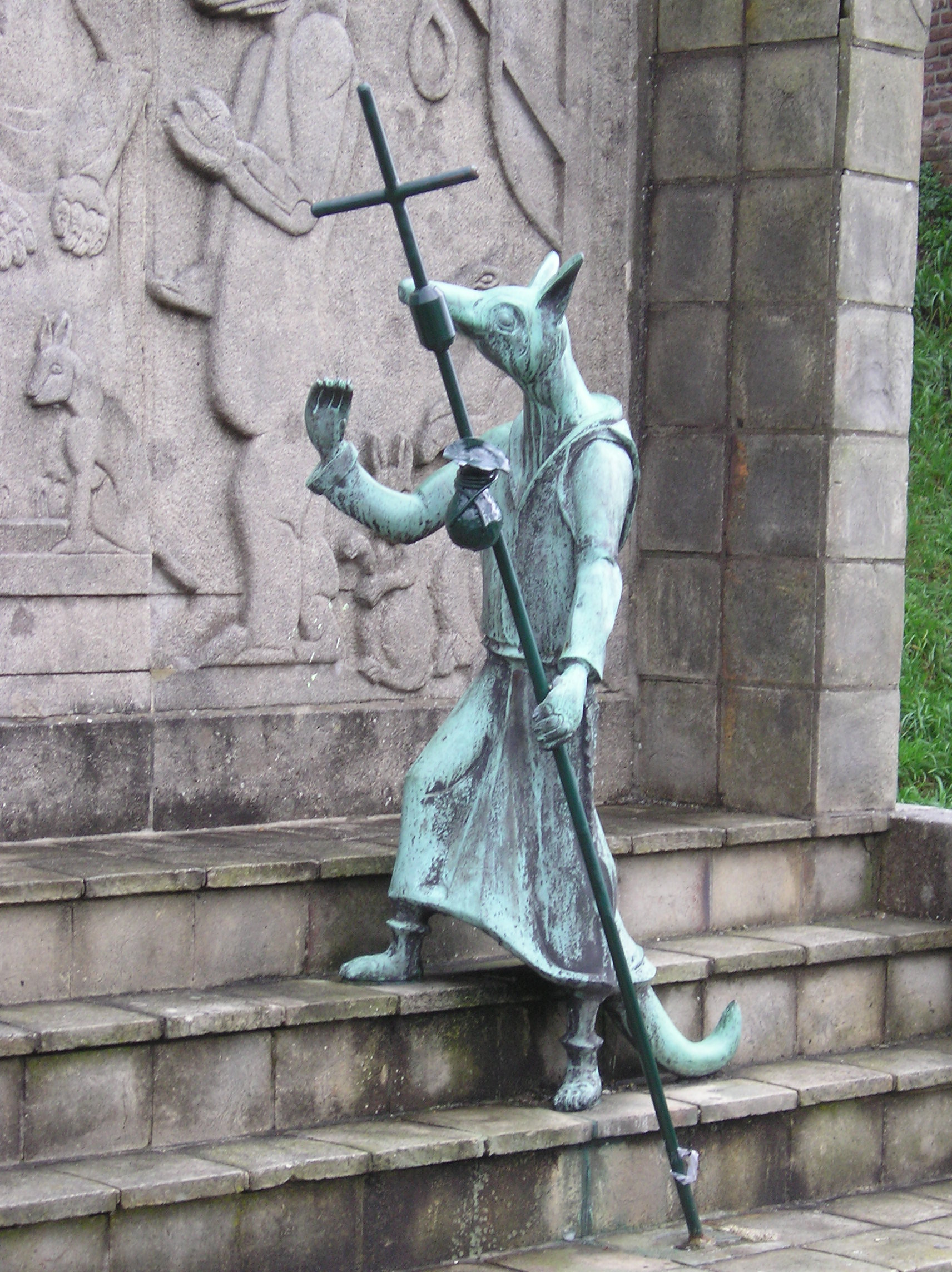 Reynard the Fox (old